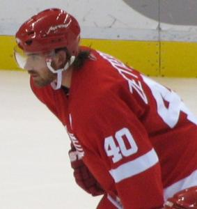 Photo of Henrik Zetterberg of the Detroit Red Wings